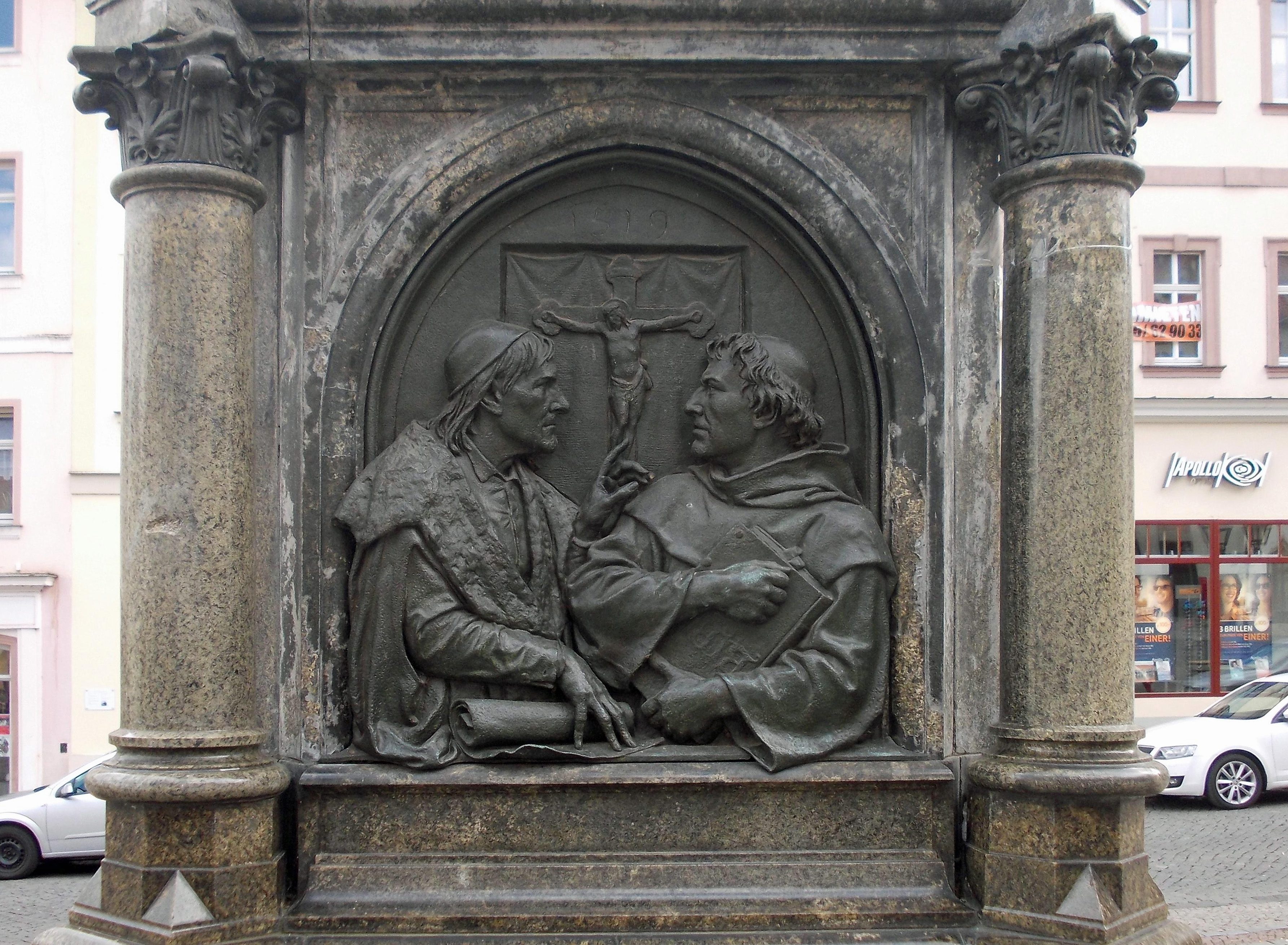 A relief of the Martin Luther Memorial in Eisleben (Mansfeld-Südharz district, Saxony-Anhalt): the dispoutation with Johannes Eck